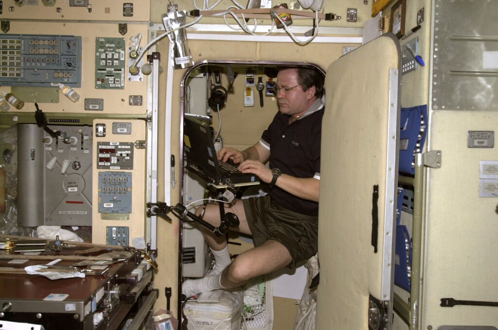 Cosmonaut Nikolai M. Budarin, Expedition Six flight engineer, uses a computer in a sleep station in the Zvezda Service Module on the International Space Station (ISS). Budarin represents Rosaviakosmos.